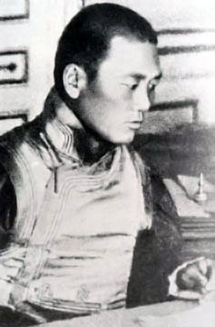 Damdiny Sukhbaatar Монгол: Дамдины Сүхбаатар